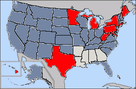 Presidential elections 1968 results